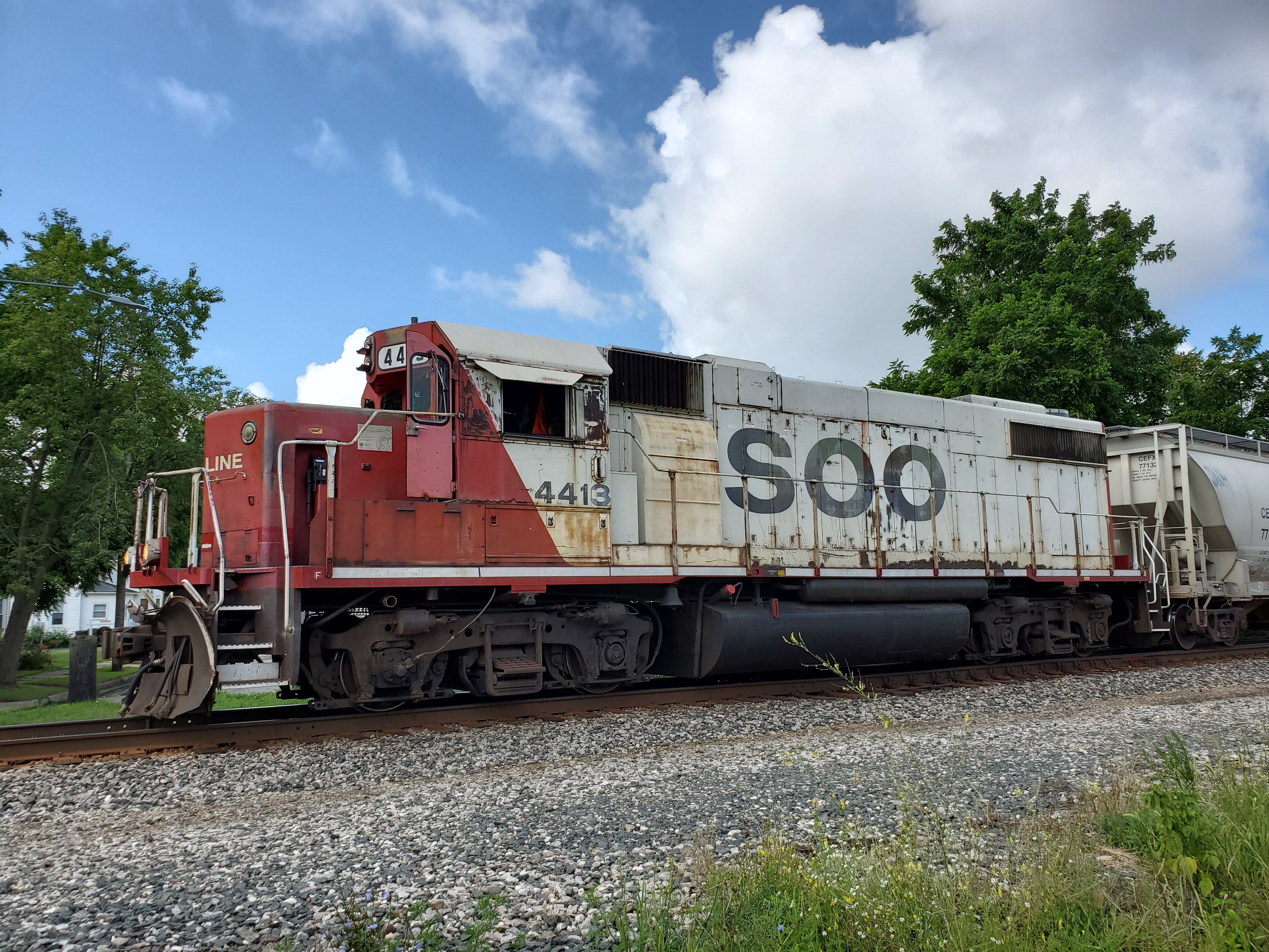 Soo Line Railroad 4413 (EMD GP38-2) in Oconomowoc, Wisconsin